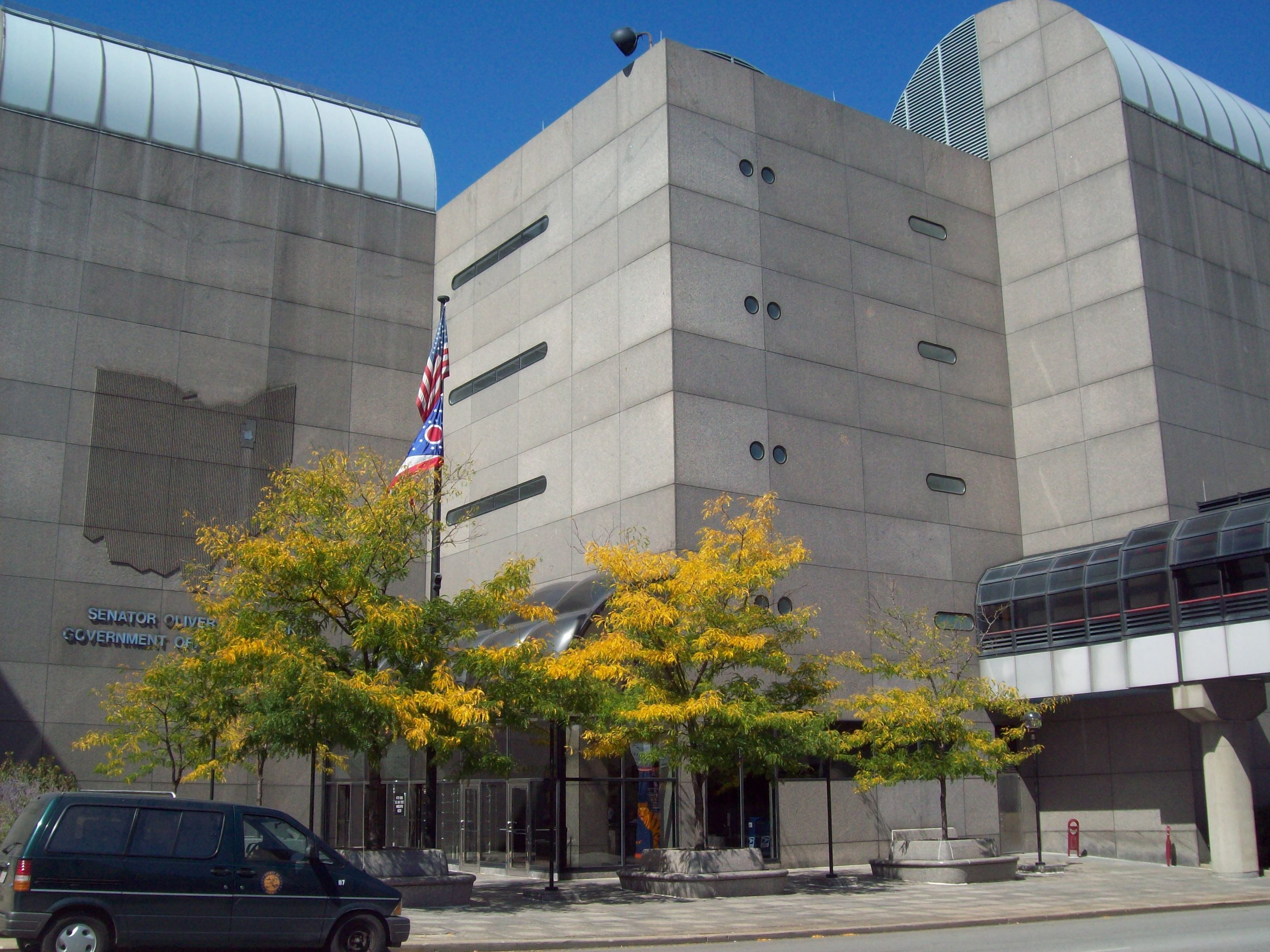 Senator Oliver R. Ocasek Government Office Building in Akron, Ohio